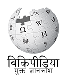 Wikipedia logo 2.0